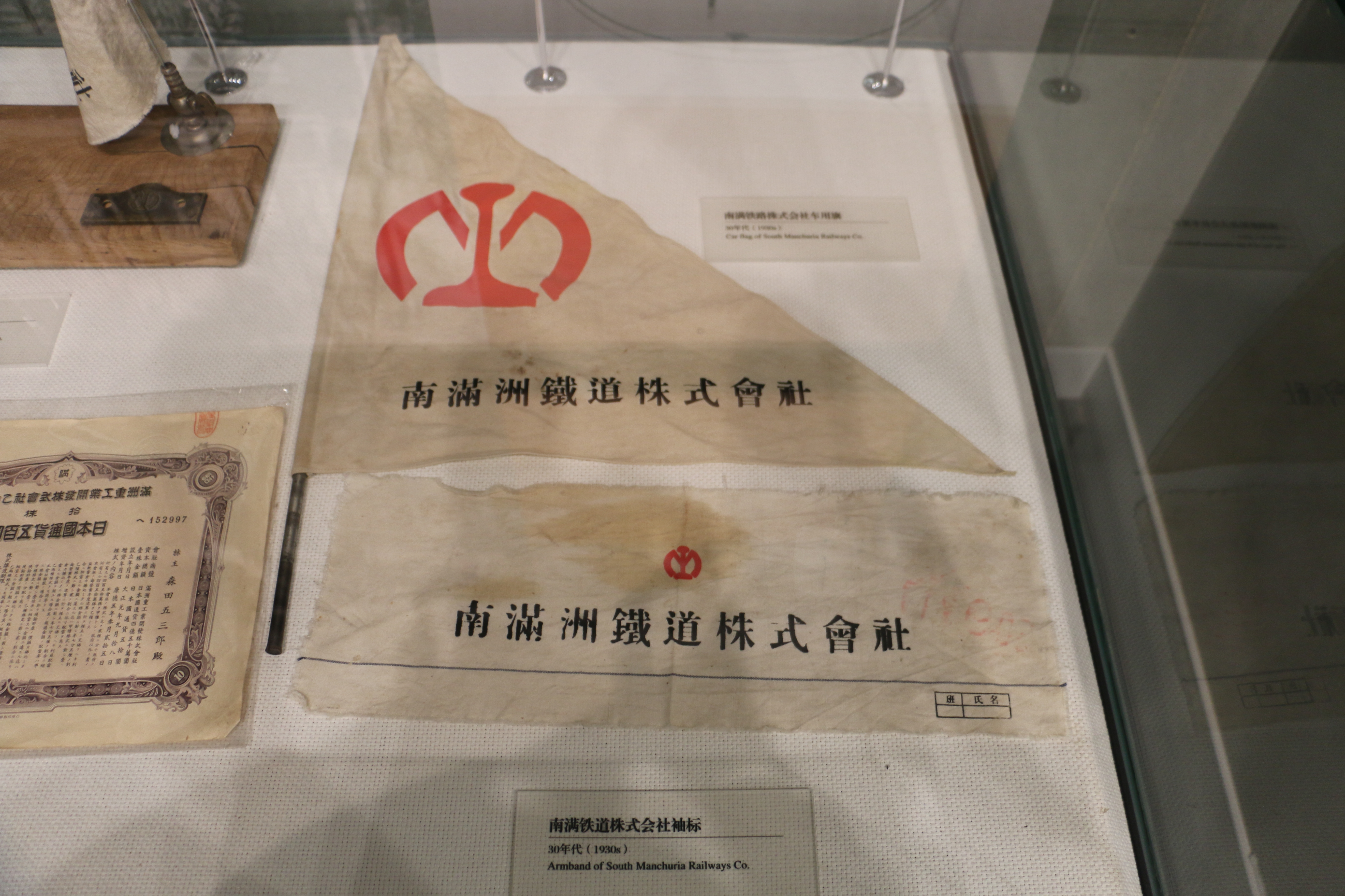 South Manchuria Railway armband, kept in China Industrial Museum.